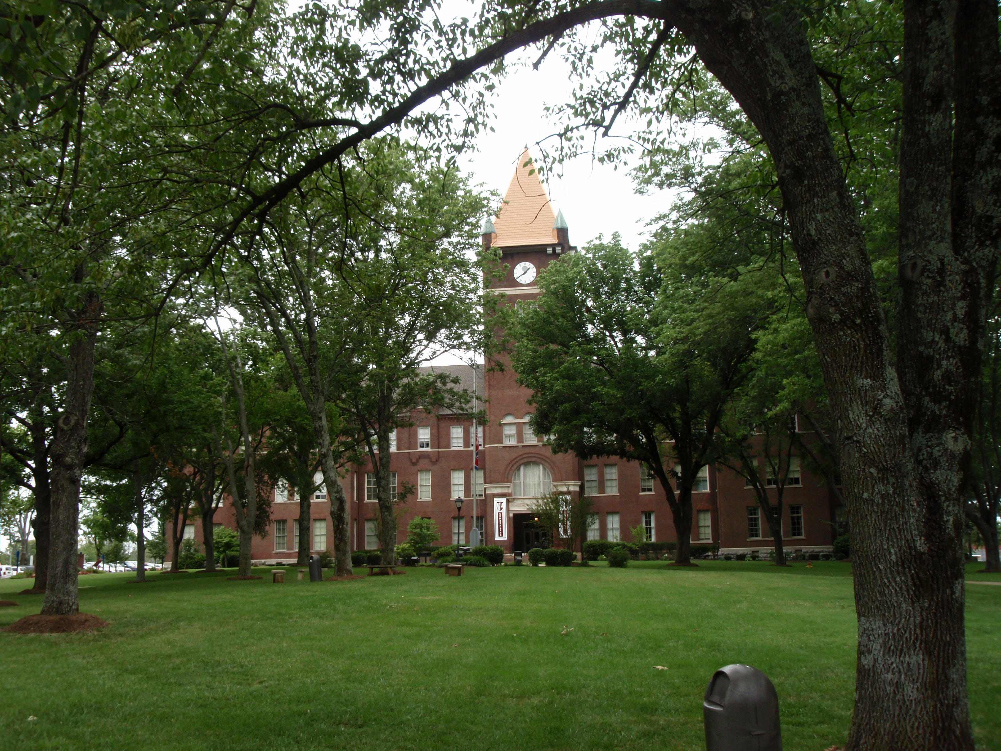 Memorial Hall, Cumberland University, Lebanon, Tennessee, United States